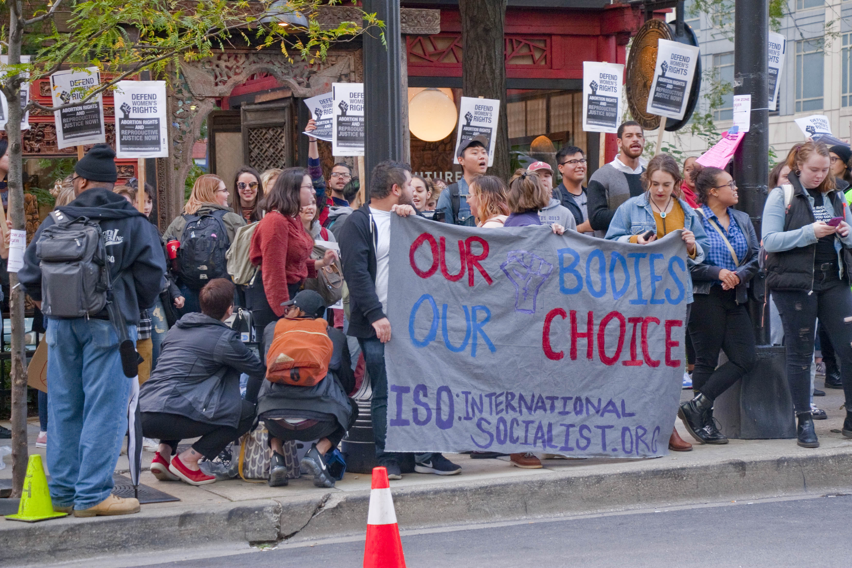 Protesting Brett Kavanaugh Chicago Illinois 10-4-18 4305